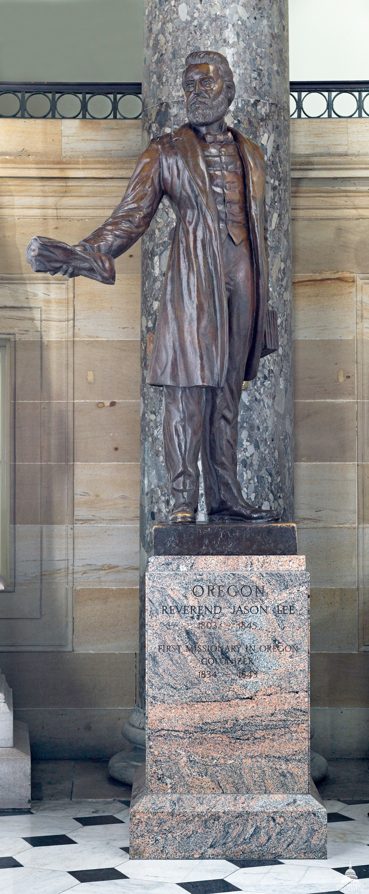 Jason Lee (1803-1845) Oregon Bronze by Gifford MacG. Proctor Given in 1953 National Statuary Hall U.S. Capitol This official Architect of the Capitol photograph is being made available for educational, scholarly, news or personal purposes (not advertising or any other commercial use). When any of these images is used the photographic credit line should read “Architect of the Capitol.” These images may not be used in any way that would imply endorsement by the Architect of the Capitol or the United States Congress of a product, service or point of view. For more information visit